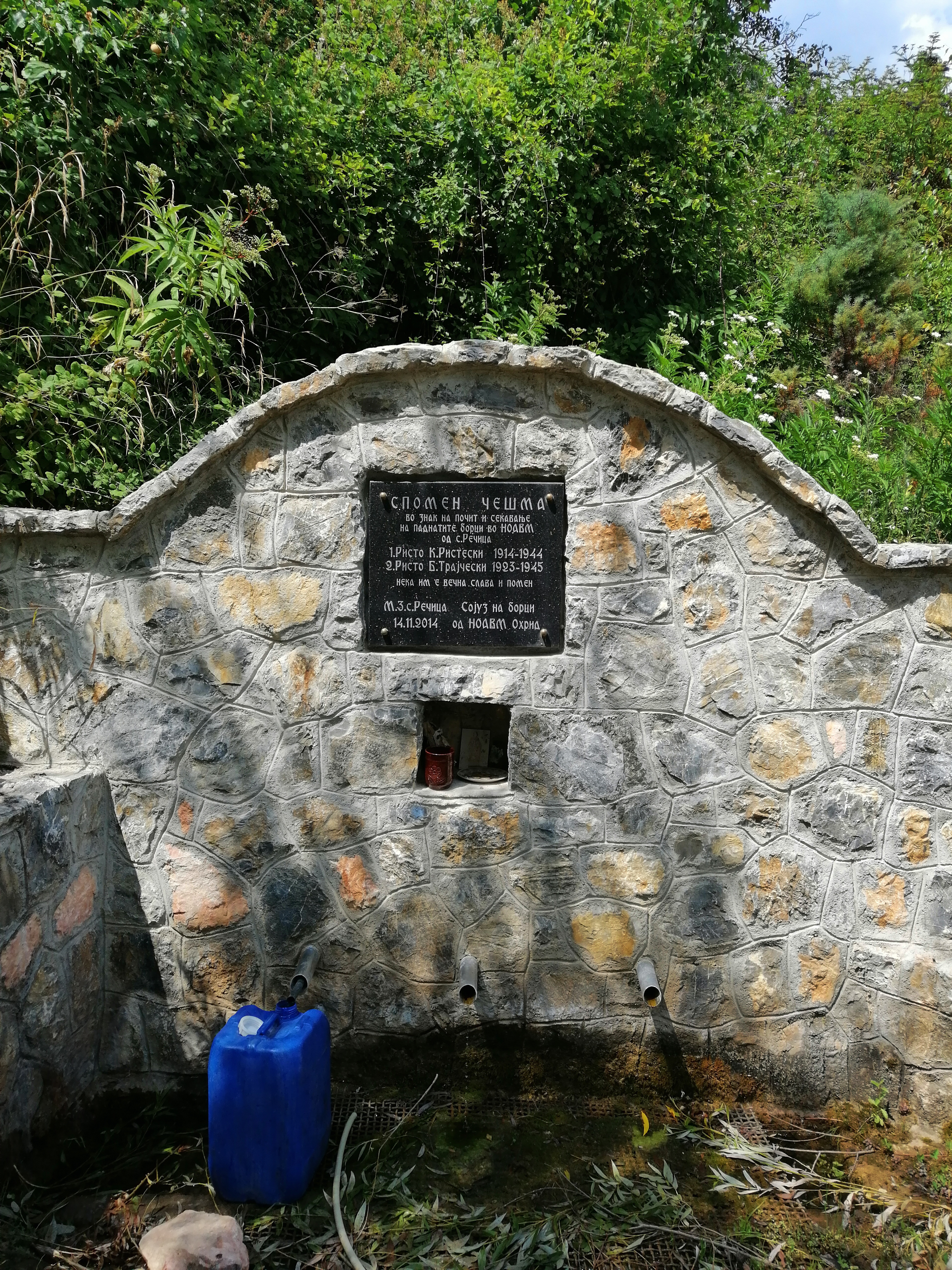 Village Pump in the village Rečica, Ohrid